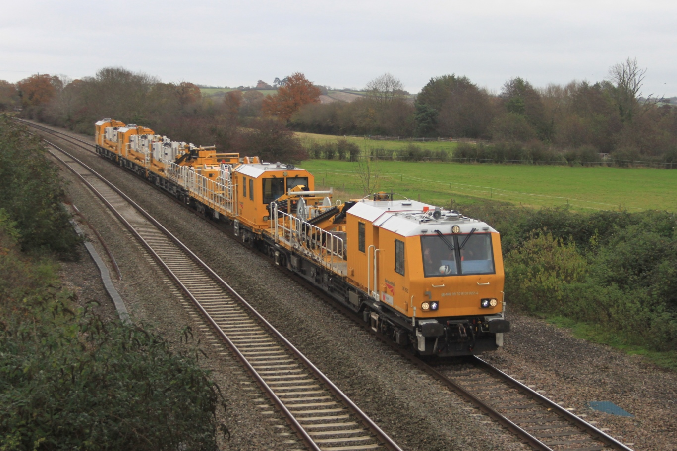 A Network Rail High Output Plant System (HOPS) with vehicle DR76922 in the lead. This is based at Swindon for engineering work to install the Great Western Main Line Electrification but is seen here at Creech St Michael on the approach to Taunton.